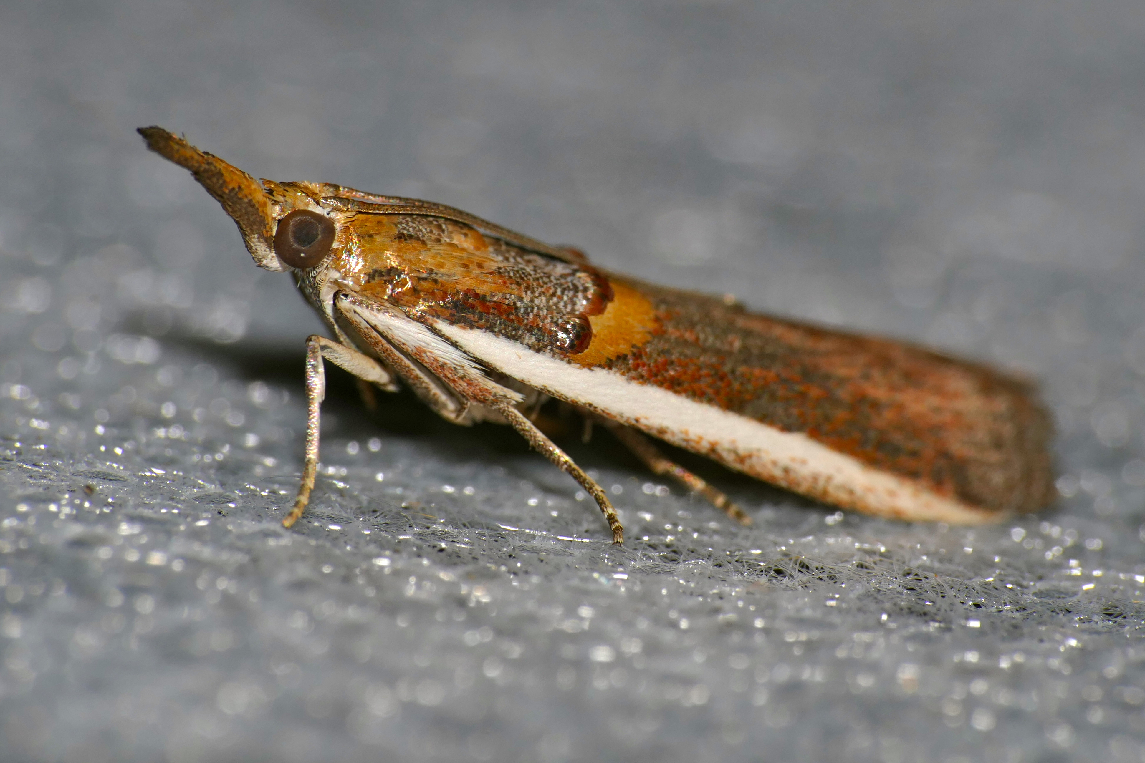 Letaba Camp, Kruger NP, SOUTH AFRICA